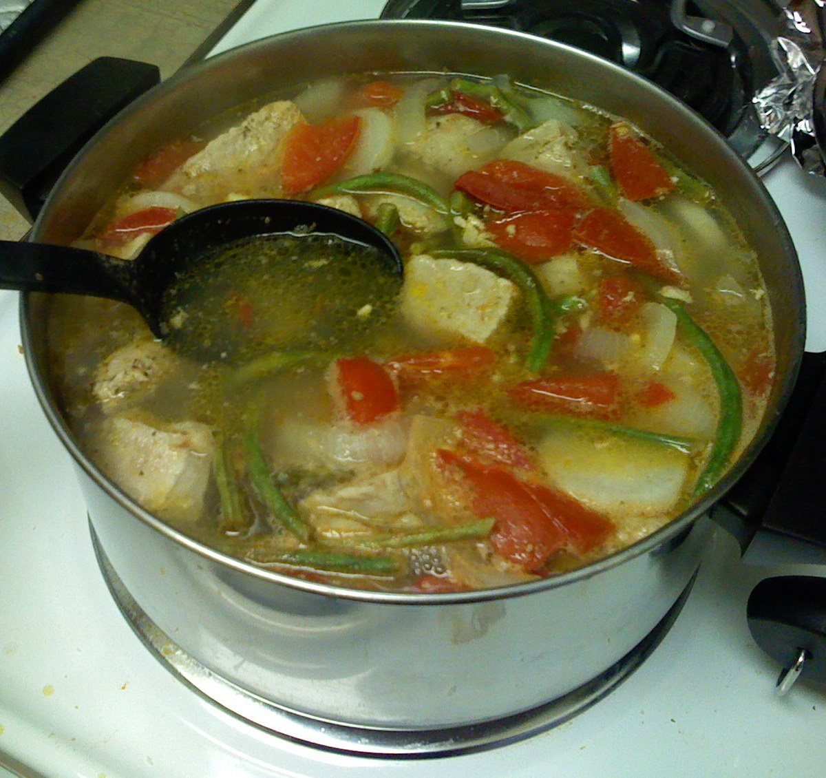 A Filipino stew, using tamarind and pork.